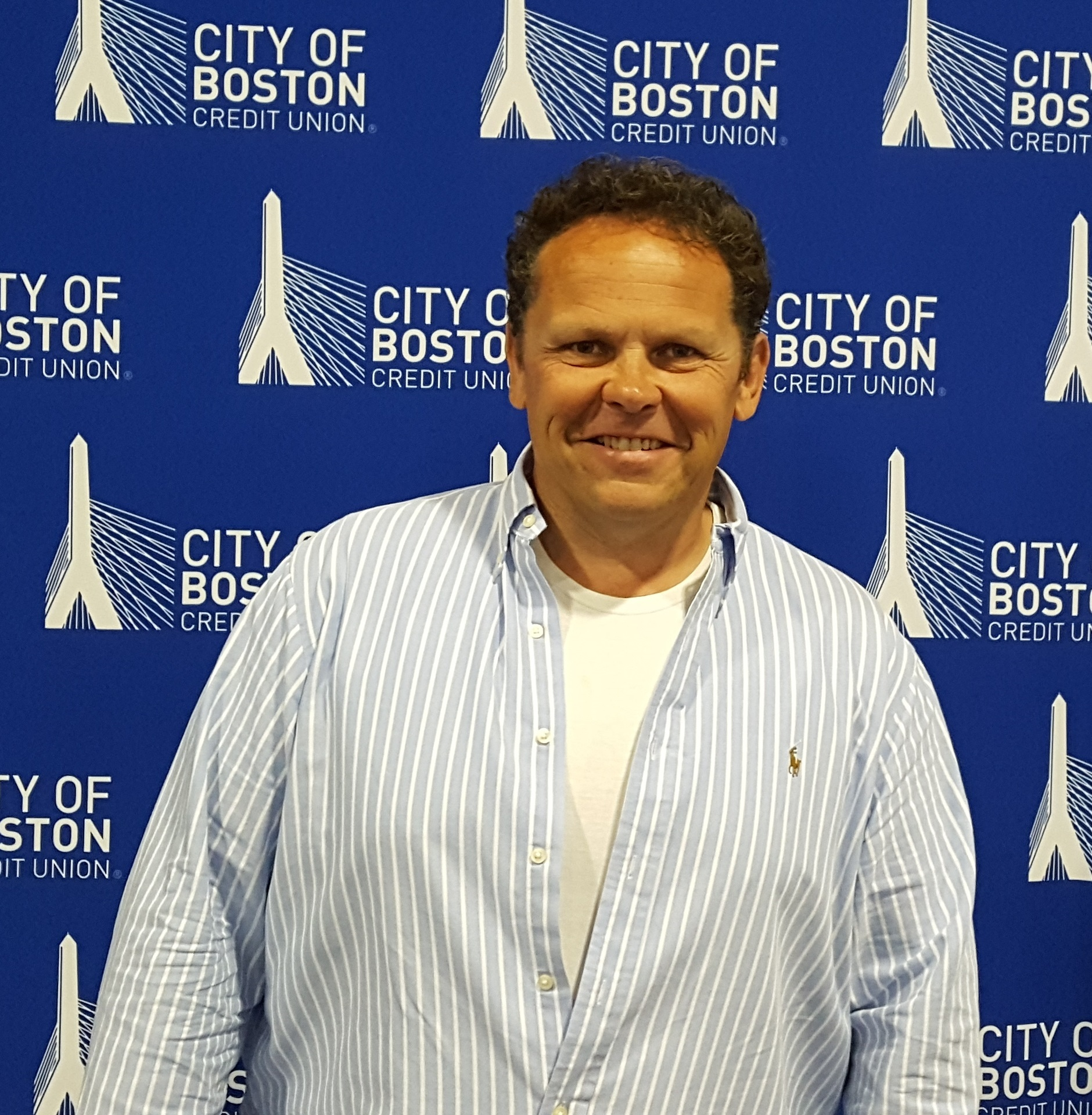 Kevin Chapman at the Boston's Run to Remember Expo in May 2016.